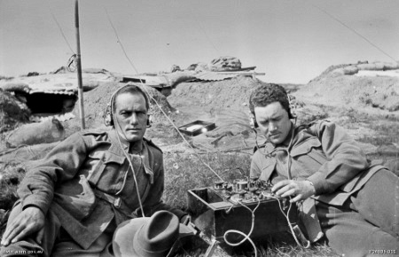 A pair of Australian signallers, each wearing a headphone set, are listening in on an early Marconi Mk III crystal shortwave tuner set. The men are probably conducting a training excercise at the signalling school at Broadmeadows, Vic. The banded pole (right) supports an aerial. Identified, but position unknown is 1349 (later Staff Sergeant) Albert Joseph Egan, who ended the war attached to 3 Squadron, Australian Flying Corps, (AFC). Note the wooden lid to the wireless set in the background. The Marconi Mk III crystal shortwave tuner set could receive only, and was developed in 1915. It was used during the First World War until it was superceded by superior models such as the Marconi Mk IV set, which could receive and transmit.